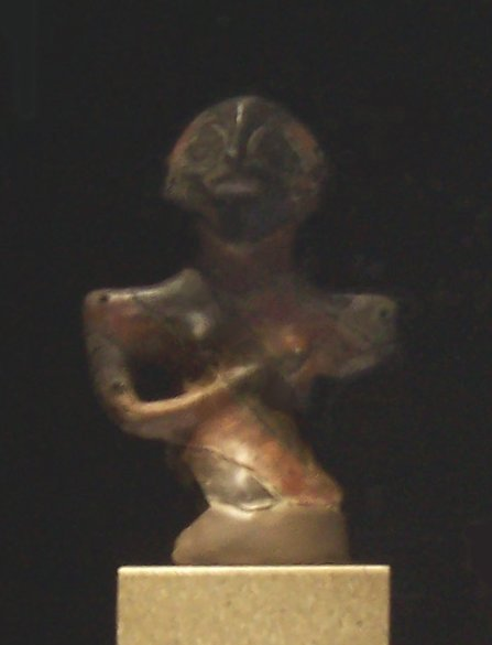 Lady of Vinča, the best example of traditional Vinča art.